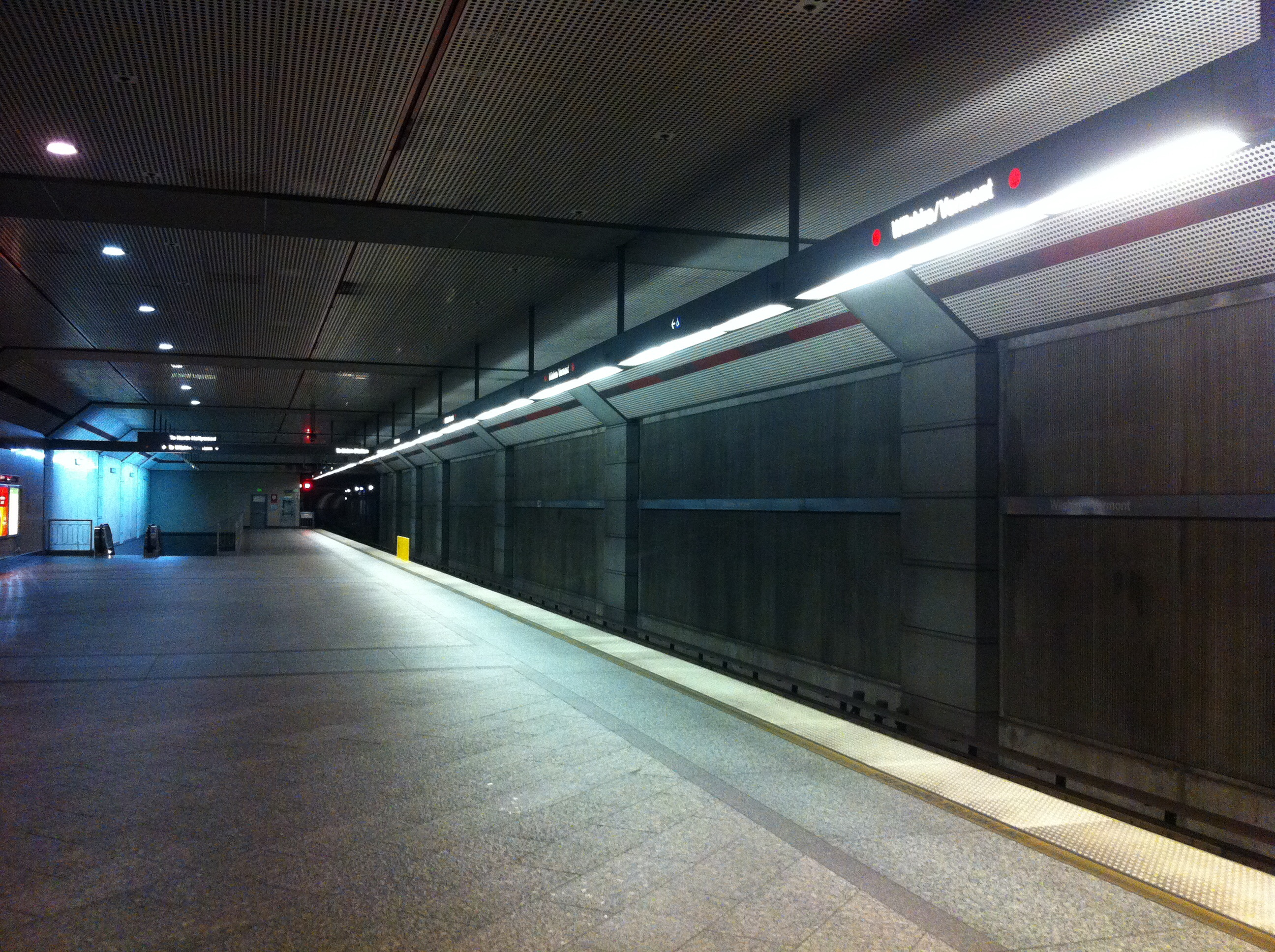 The upper platform view of Wilshire/Vermont Station.